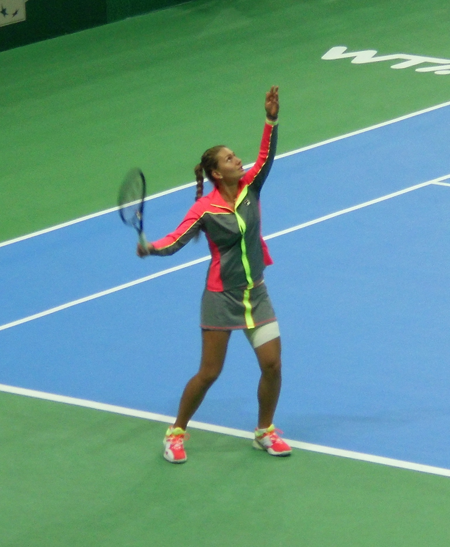 Jovana Jakšić during first round match at BNP Paribas Katowice Open 2014